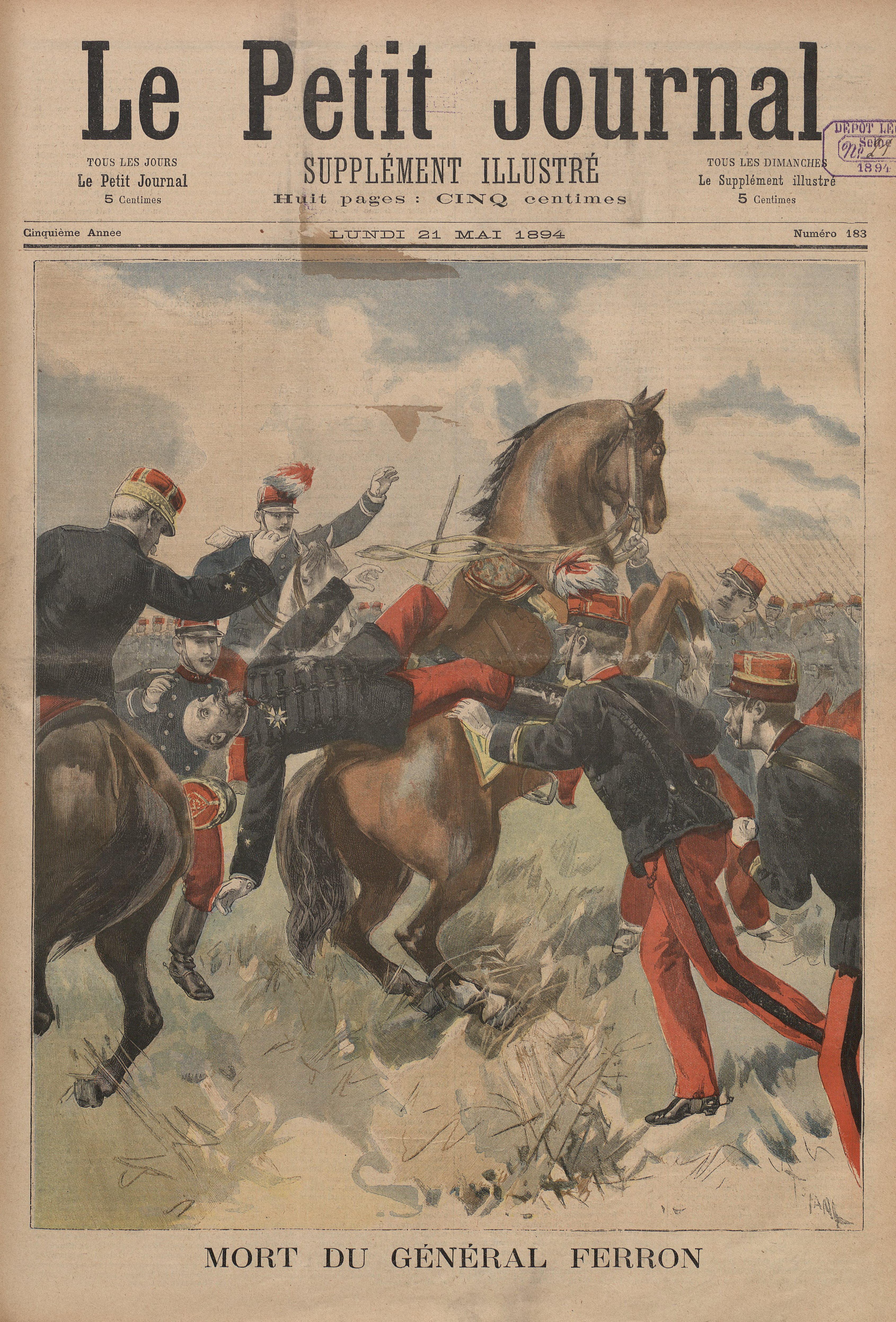 Death of the French general Théophile Ferron (1830-1894).